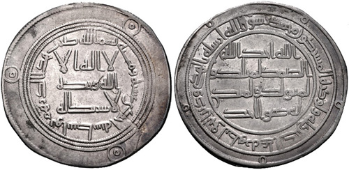 Dirham of the Umayyad caliph Hisham ibn 'Abd al-Malik, containing the following set of inscriptions: Obverse center: لا إله إلا \ الله وحده \ لا شريك له "There is no god but God alone; He has no partner." Obverse margin: بسم الله ضرب هذا الدرهم بواسط سنة إحدى عشرة ومائة "In the name of God, this dirham was struck in Wasit the year one hundred and eleven (729-730 AD)." Reverse center: الله احد الله \ الصمد لم يلد و \ لم يولد ولم يكن \ له كفواً أحد "God the One, God the Eternal. He neither begets nor is begotten, nor is there to Him any equivalent (Surat al-Ikhlas)." Reverse margin: محمد رسول الله أرسله بالهدى ودين الحق ليظهره على الدين كله ولو كره المشركون "Muhammad is the Messenger of God. He sent him with guidance and the true religion to proclaim it over all other religions, even if the polytheists dislike it (Qur'an 9:33)." For more details on standard Umayyad coin inscriptions in the post-reform period, see: Bacharach, Jere L. Islamic History through Coins: An Analysis and Catalogue of Tenth-Century Ikhshidid Coinage. Cairo: The American University in Cairo Press, 2006. ISBN 977-424-930-5. p. 15